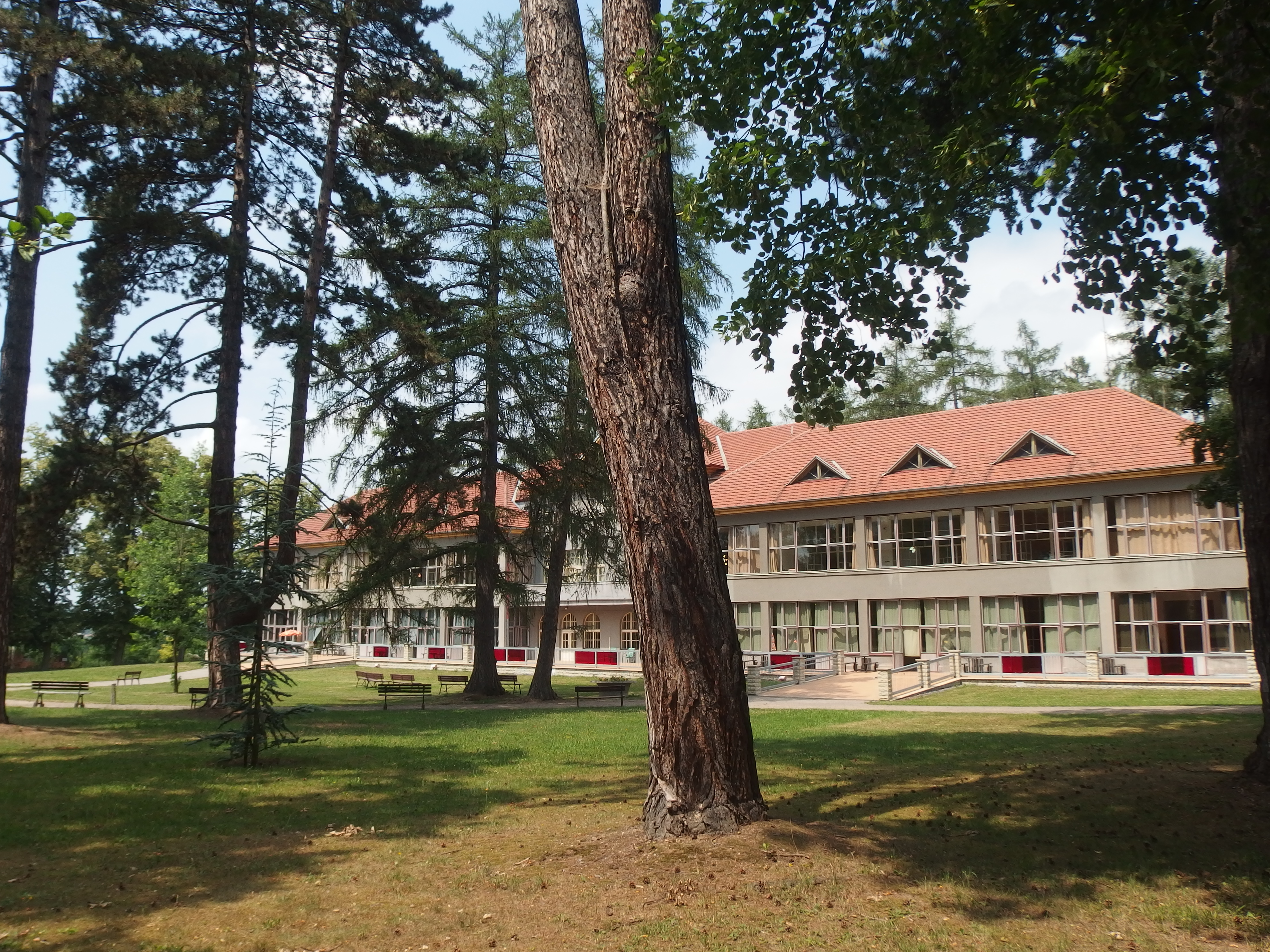 Luže, Chrudim District, Czech Republic, part Košumberk.